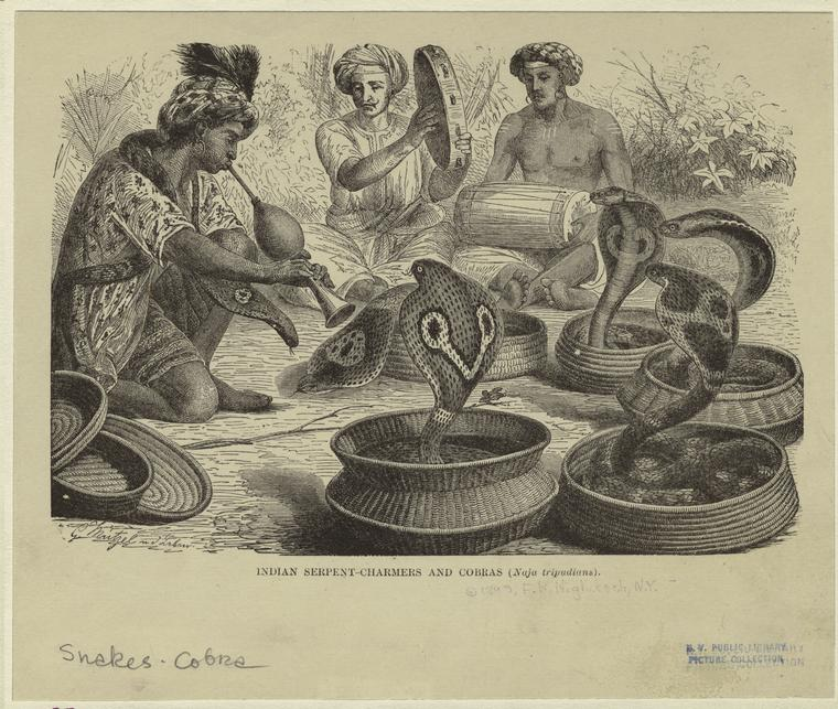 Indian serpent-charmers and cobras (naja tripudians).